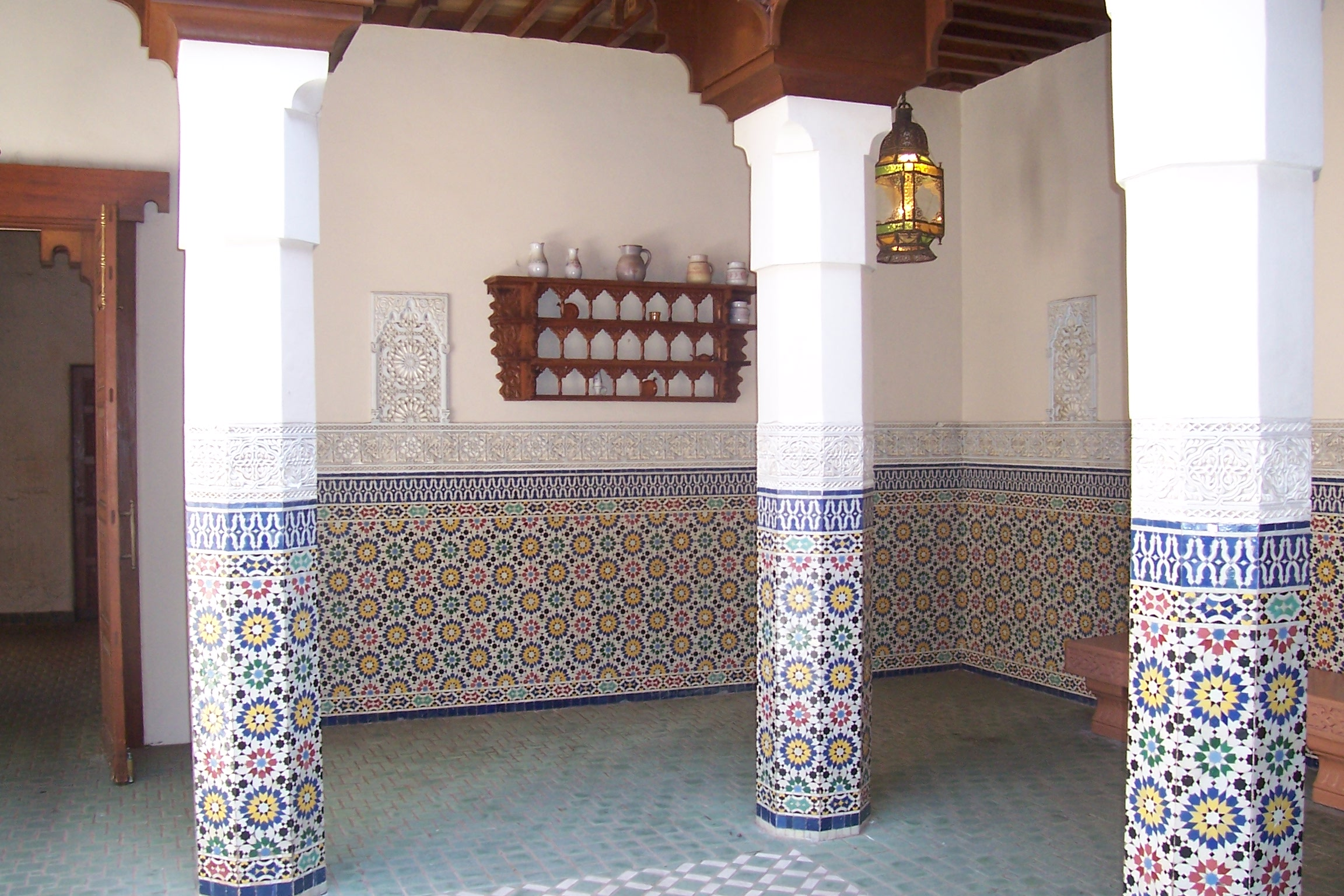 Tile work in the Morocco pavillion at the Epcot World Showcase